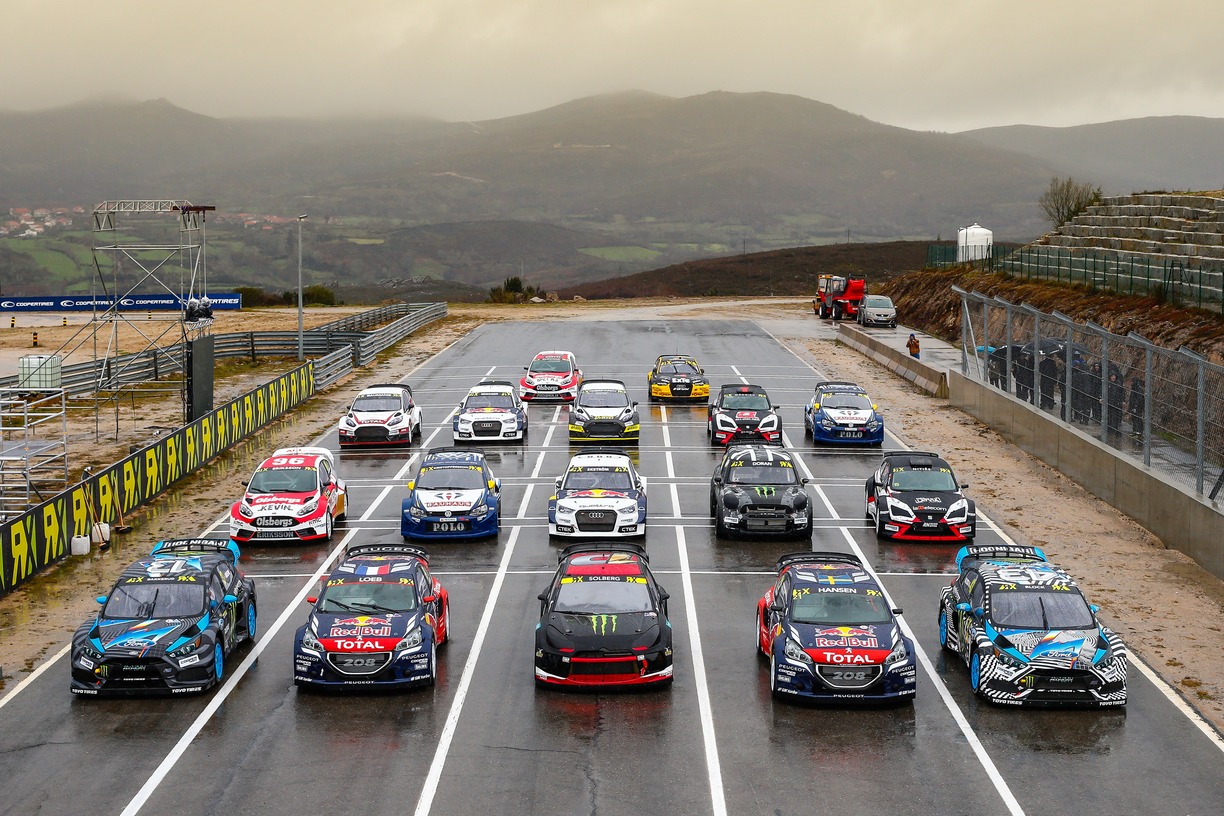 2016 FIA World Rallycross Championship // Round 01 // Montalegre, Portugal // 15-17 April, 2016 // Worldwide Copyright: EKS/McKlein